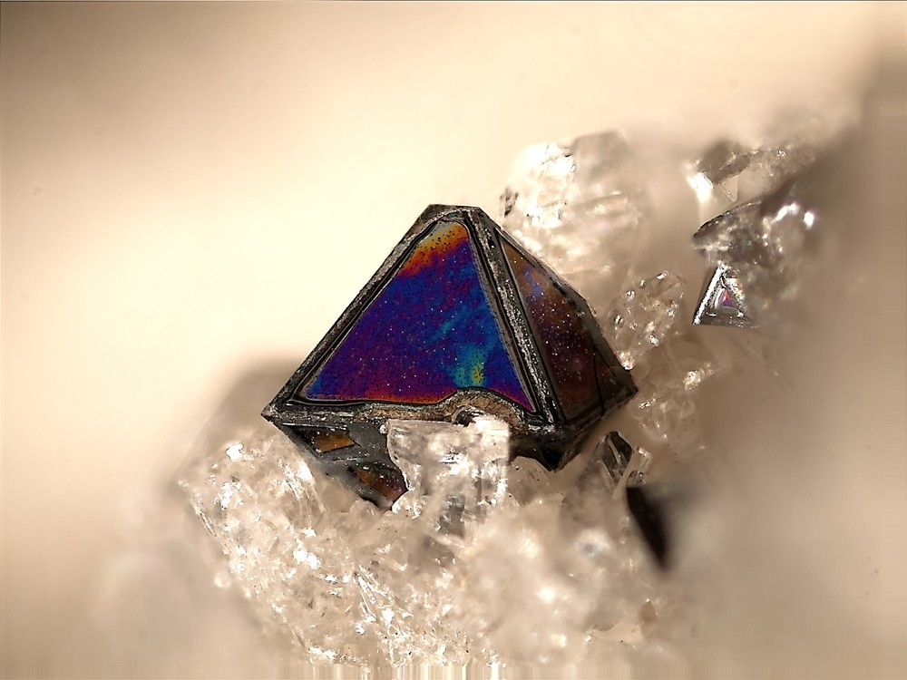 Hercynite (Image width: 2,7 mm) Locality: In den Dellen quarries, Niedermendig, Mendig, Laach lake volcanic complex, Eifel, Rhineland-Palatinate, Germany